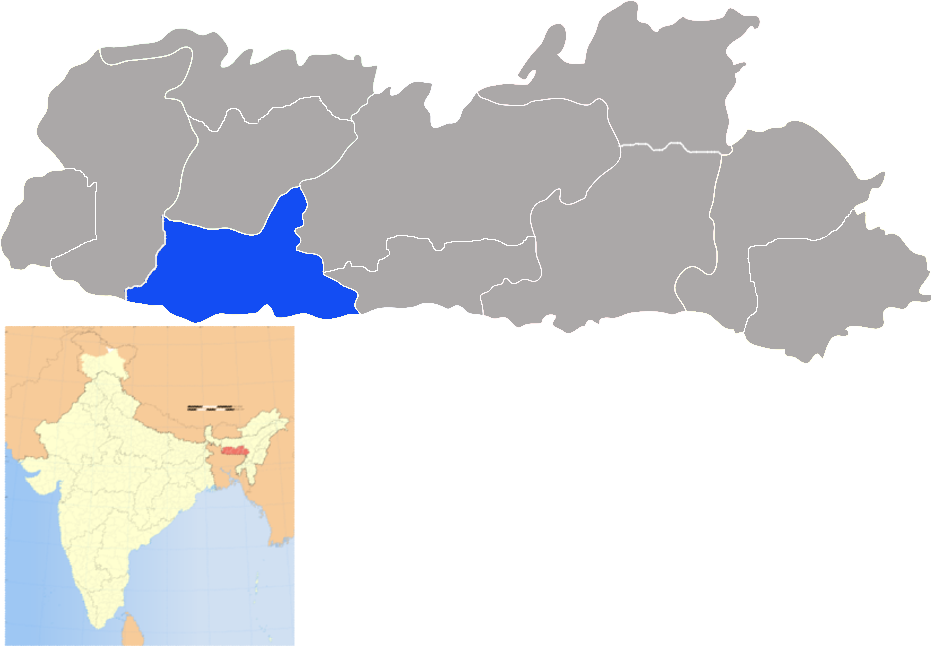 South Garo Hills district of Meghalaya